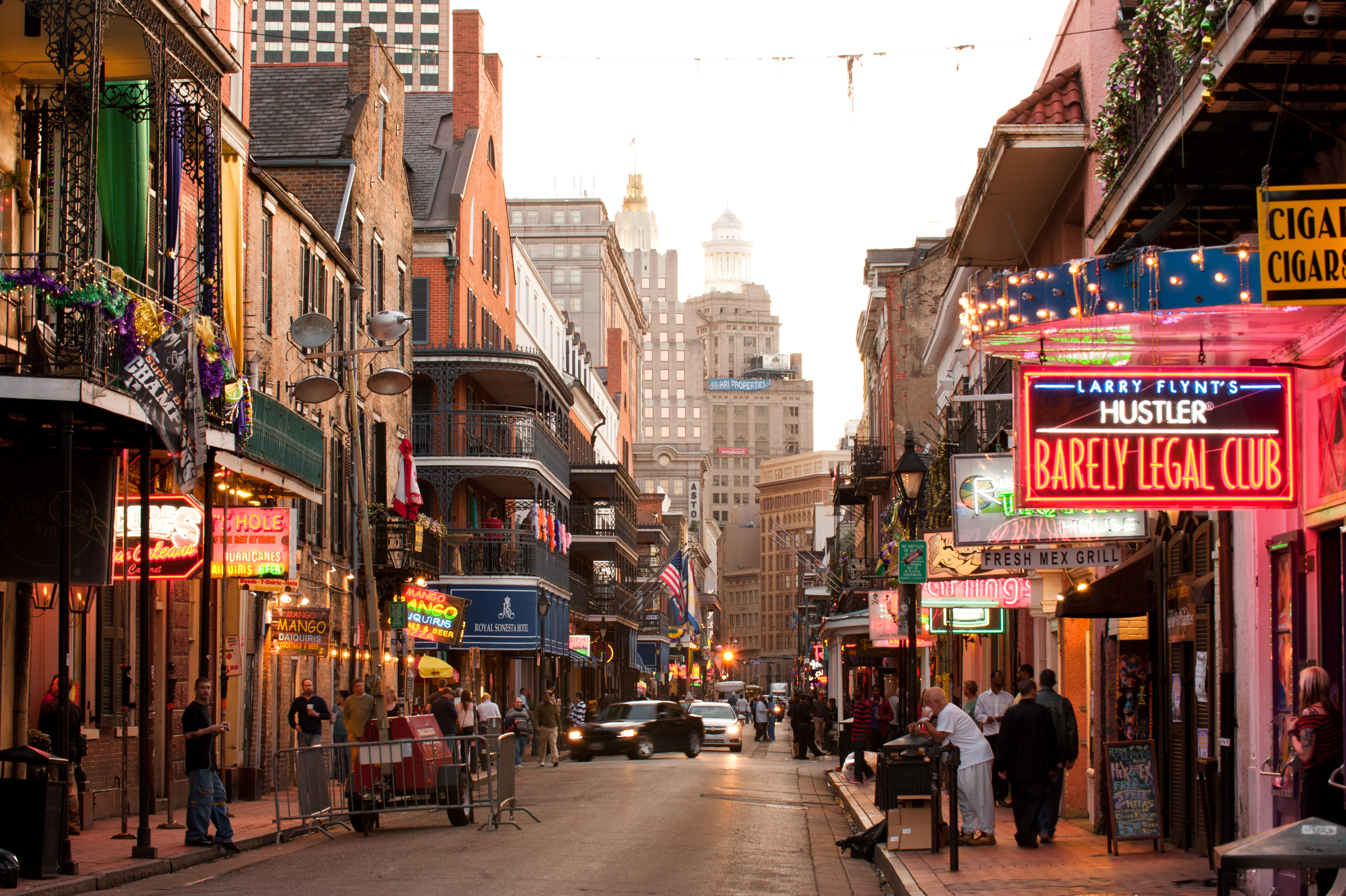 Bourbon Street before the crowds come at night. Looking up Bourbon Street towards the Central Business District, New Orleans.